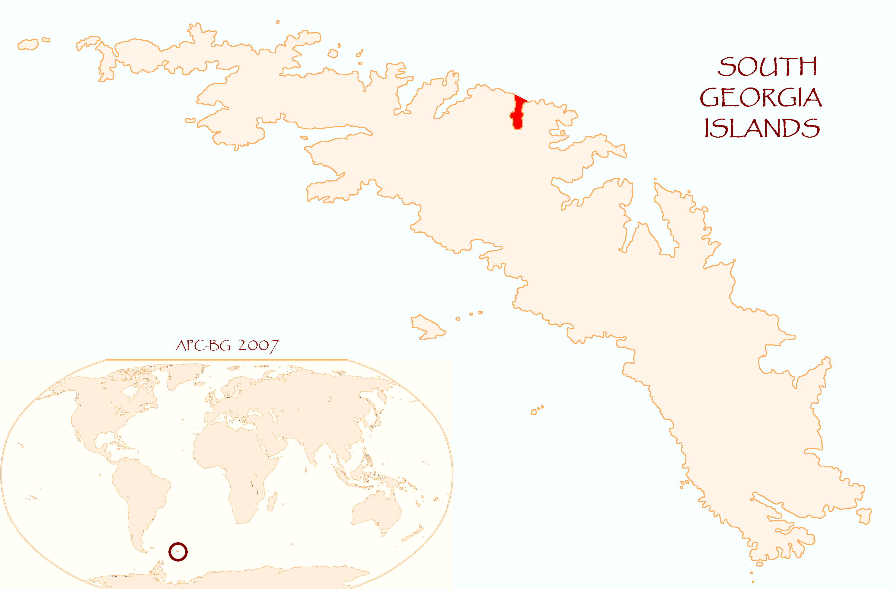 Location map for Fortuna Bay, South Georgia published by the author Apcbg.